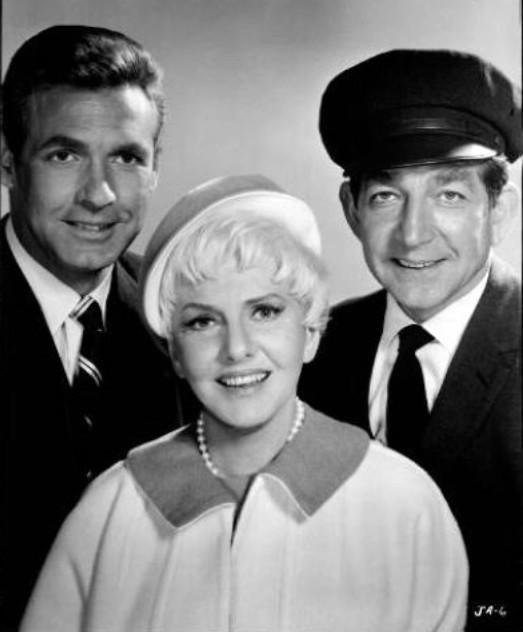 Photo of Ron Harper, Jean Arthur and Leonard Stone from the short-lived television comedy The Jean Arthur Show. Arthur played an attorney, Harper played her son and law partner, while Stone played her chauffeur.